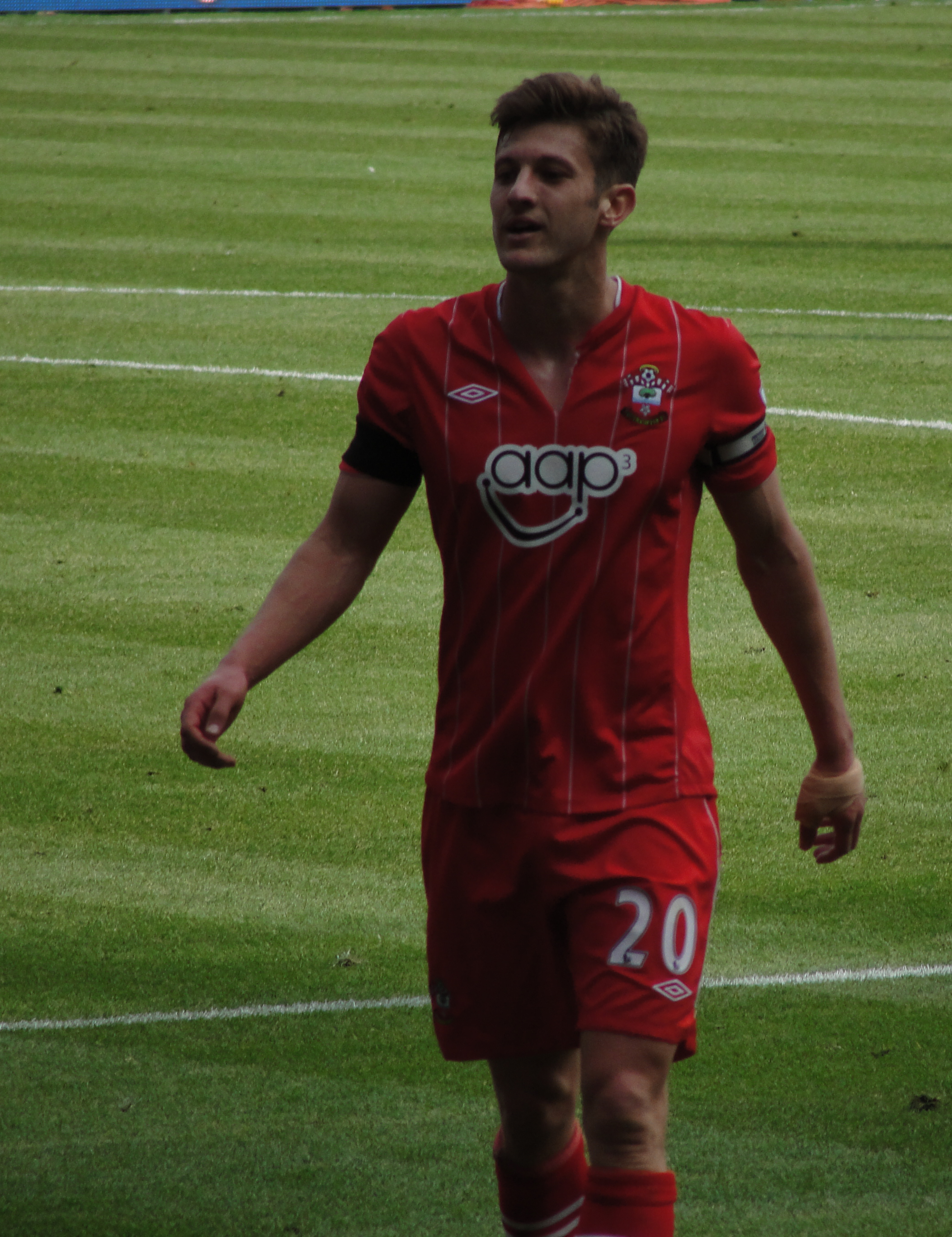 Southampton F.C. player Adam Lallana at St Mary's Stadium on 19 May 2013.